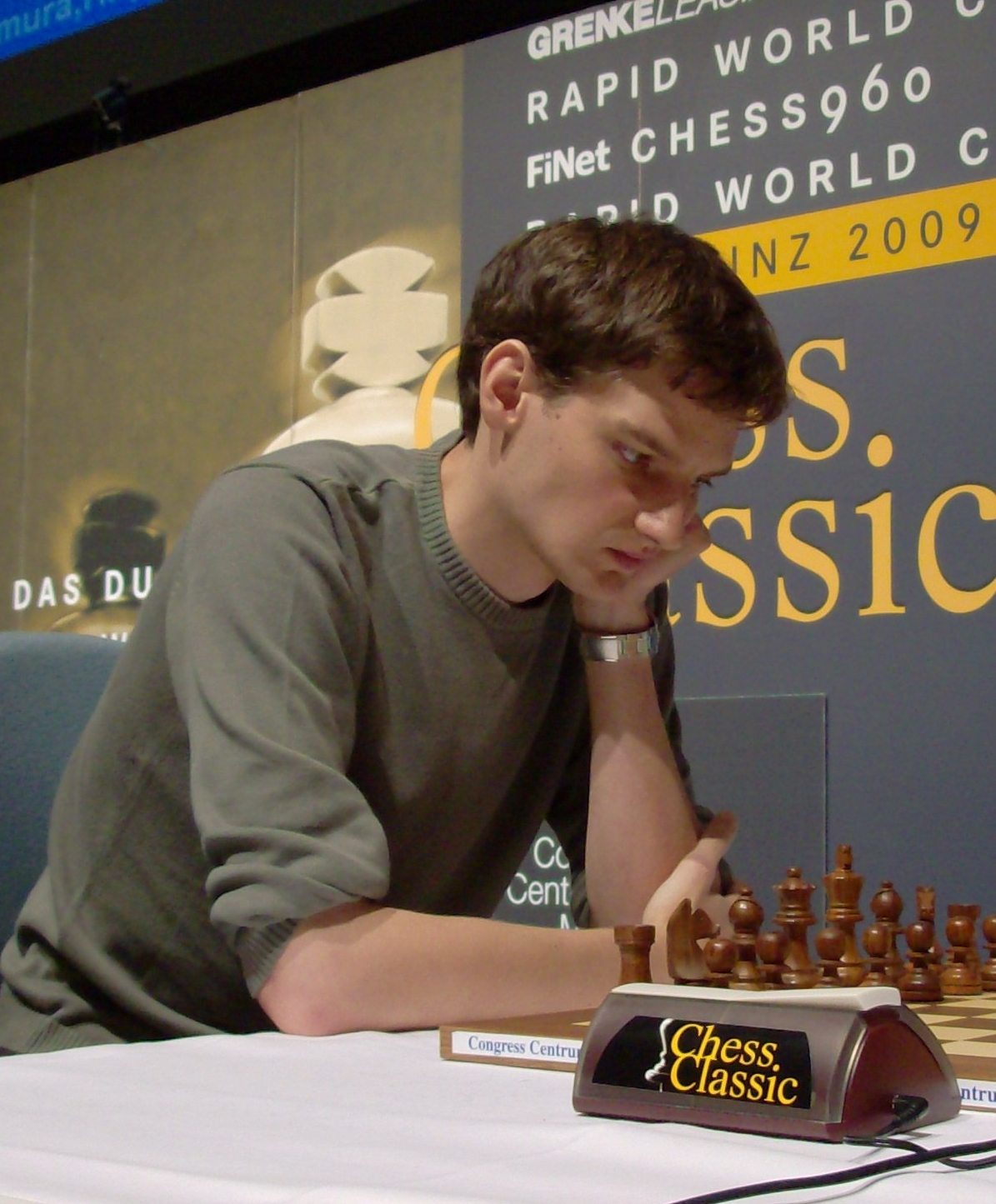 Boris Grachev, chess grandmaster from Russia